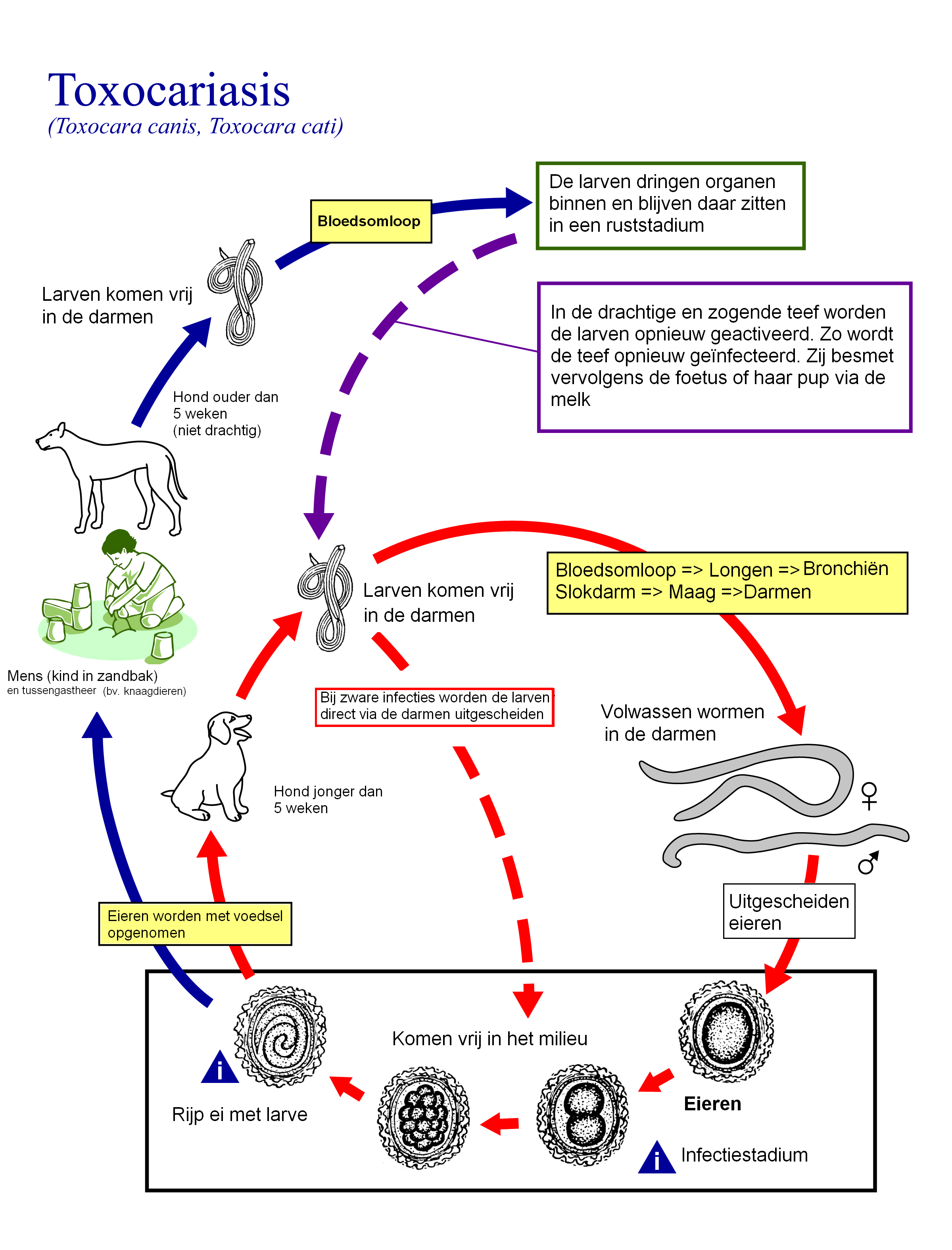 Life cycle of Toxocara sp.